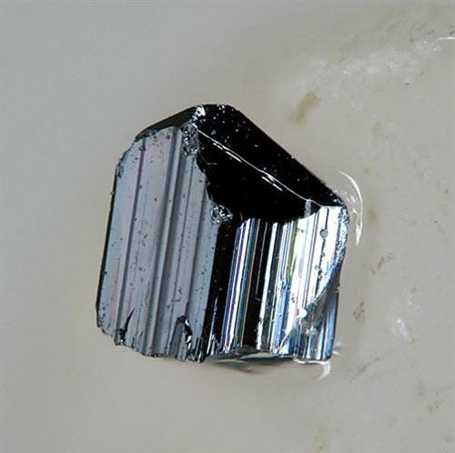 Samsonite (Size: 1mm x 1mm x 1mm) Locality: Samson Mine, St. Andreasberg, Harz, Germany